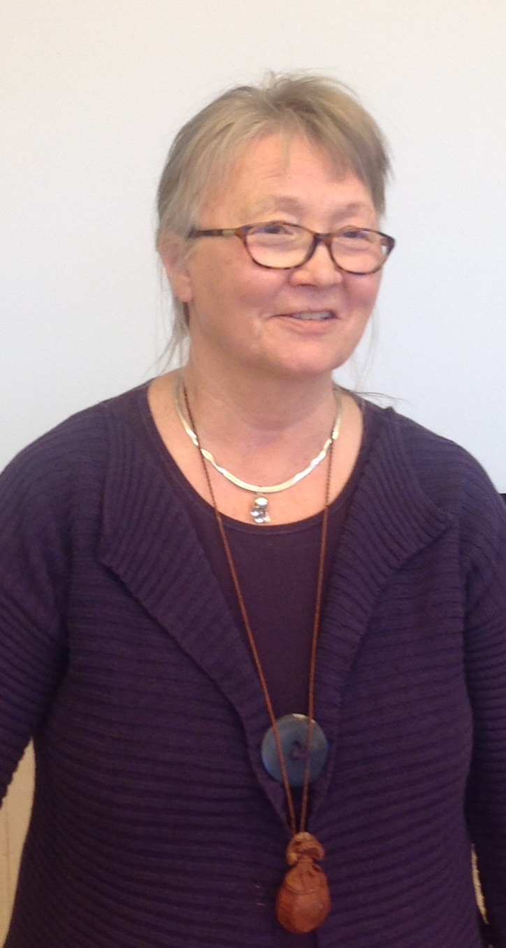 Maja Dunfjeld (born 1947) is a southern sami art historican and consultant in sami handicraft duodji/duedtie